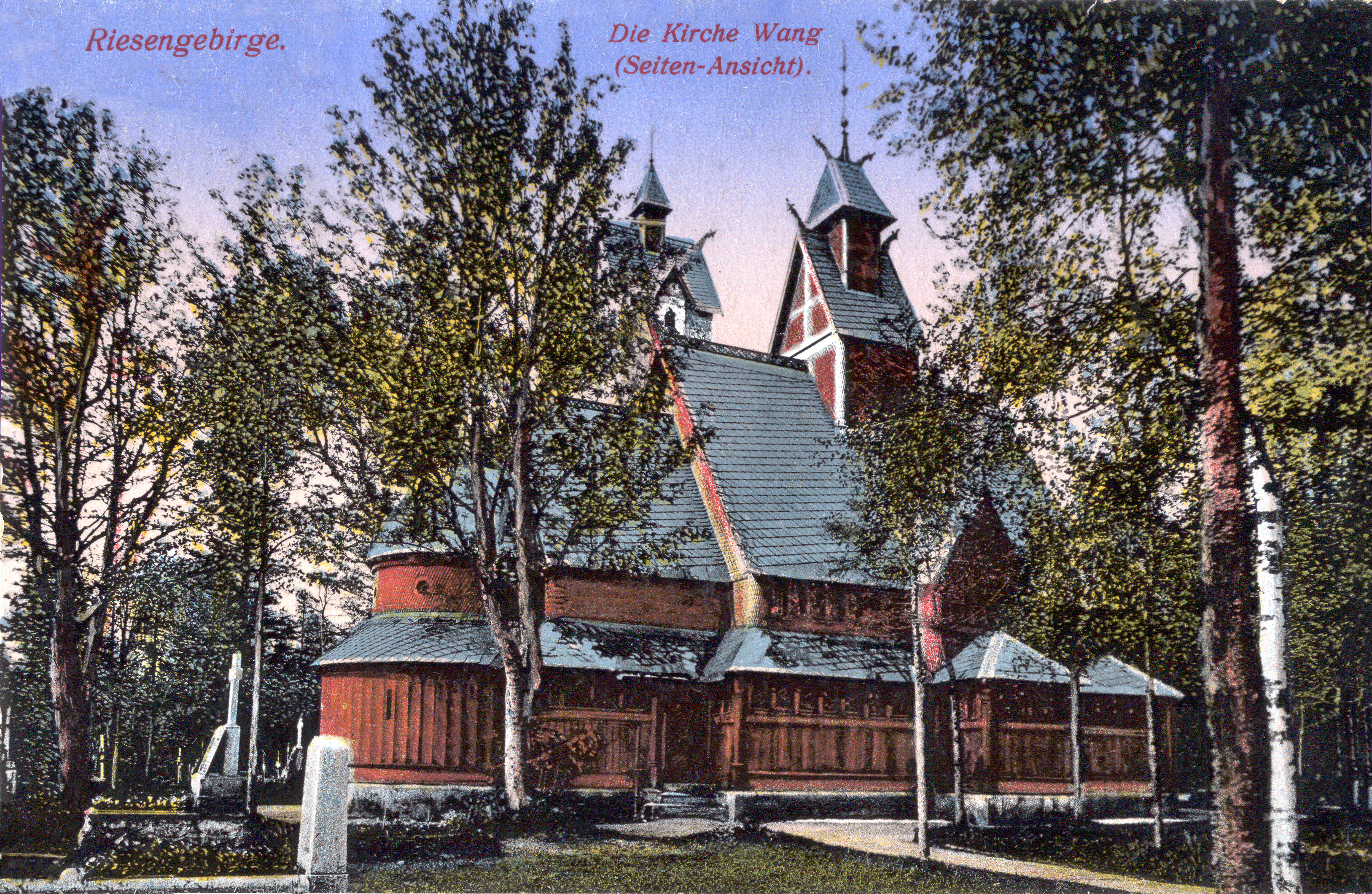 Wang Church, Karpacz, Poland.